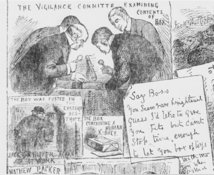 Illustration from The Illustrated Police News (October 27, 1888).